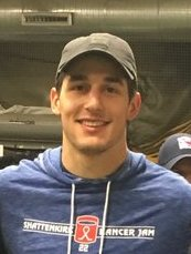 Brady Skjei with fans